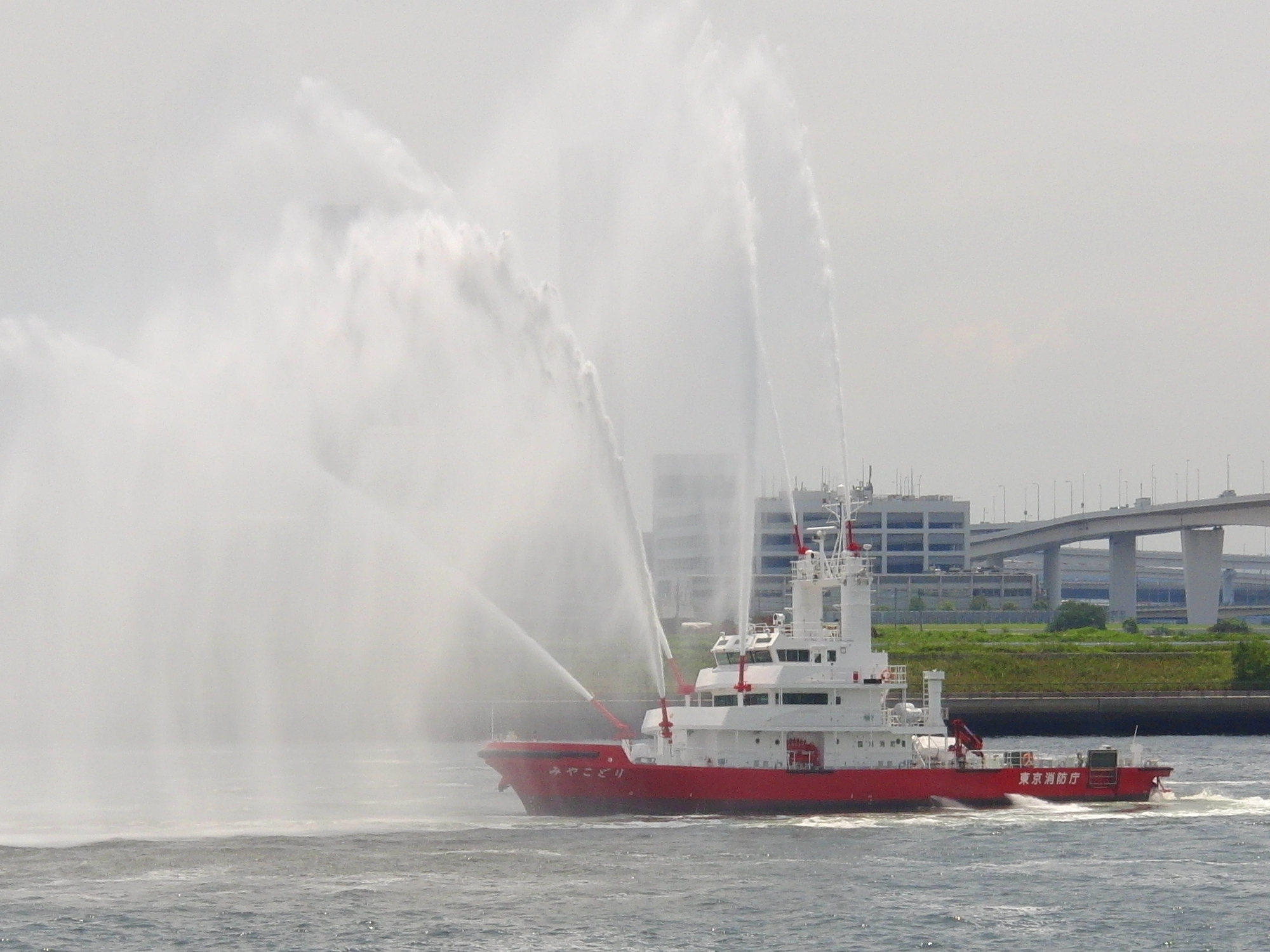 Fireboat of the Tokyo Fire Department "Miyakodori" (4th) at Tokyo Fire Department Water Pageant 2013.